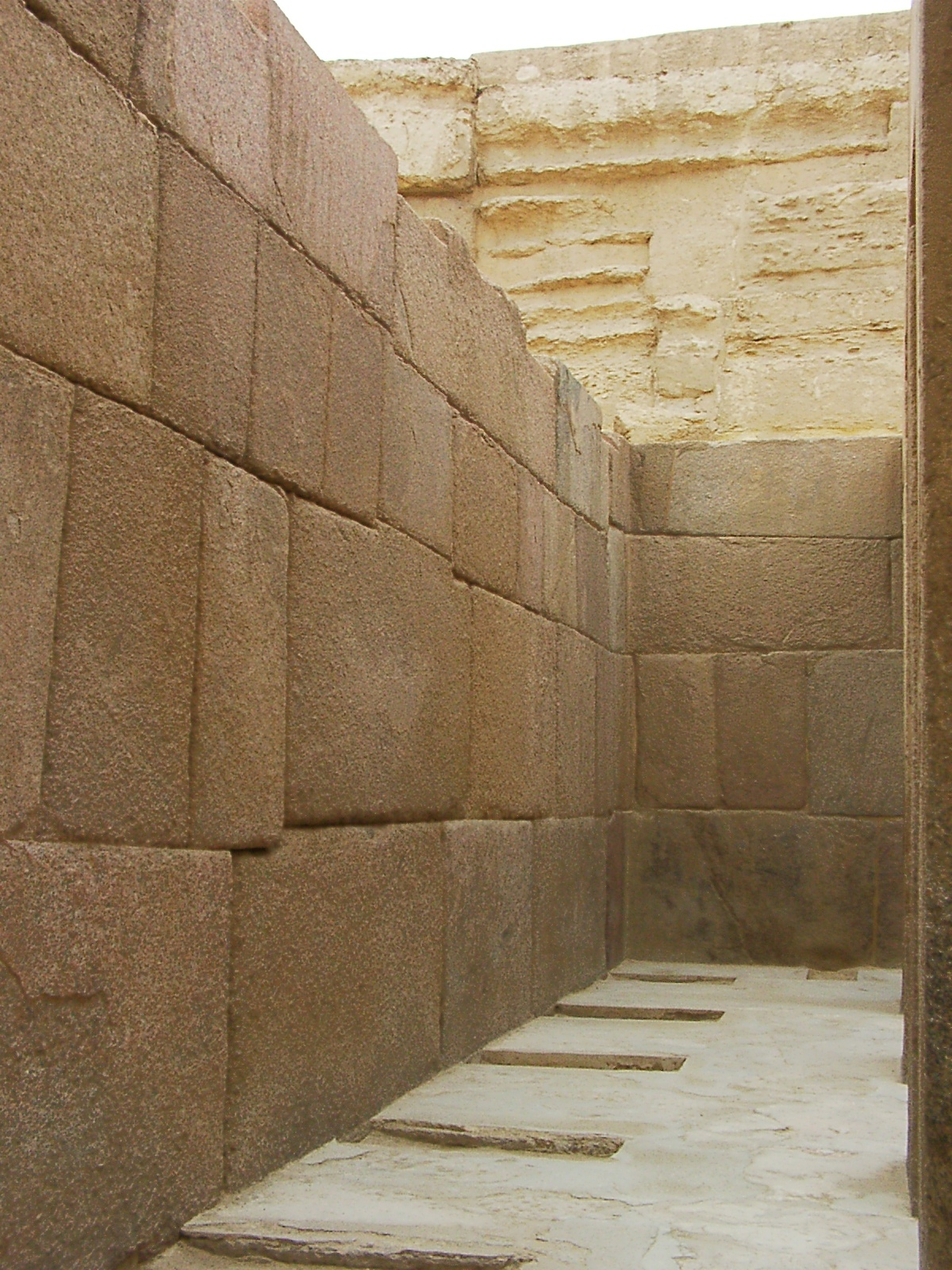 Statue sockets in Khafre's Valley Temple, at south side of the pillared hall